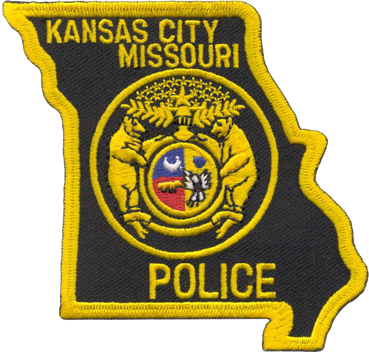 Image of the Kansas City, Missouri Police Department patch. Made with Photoshop.